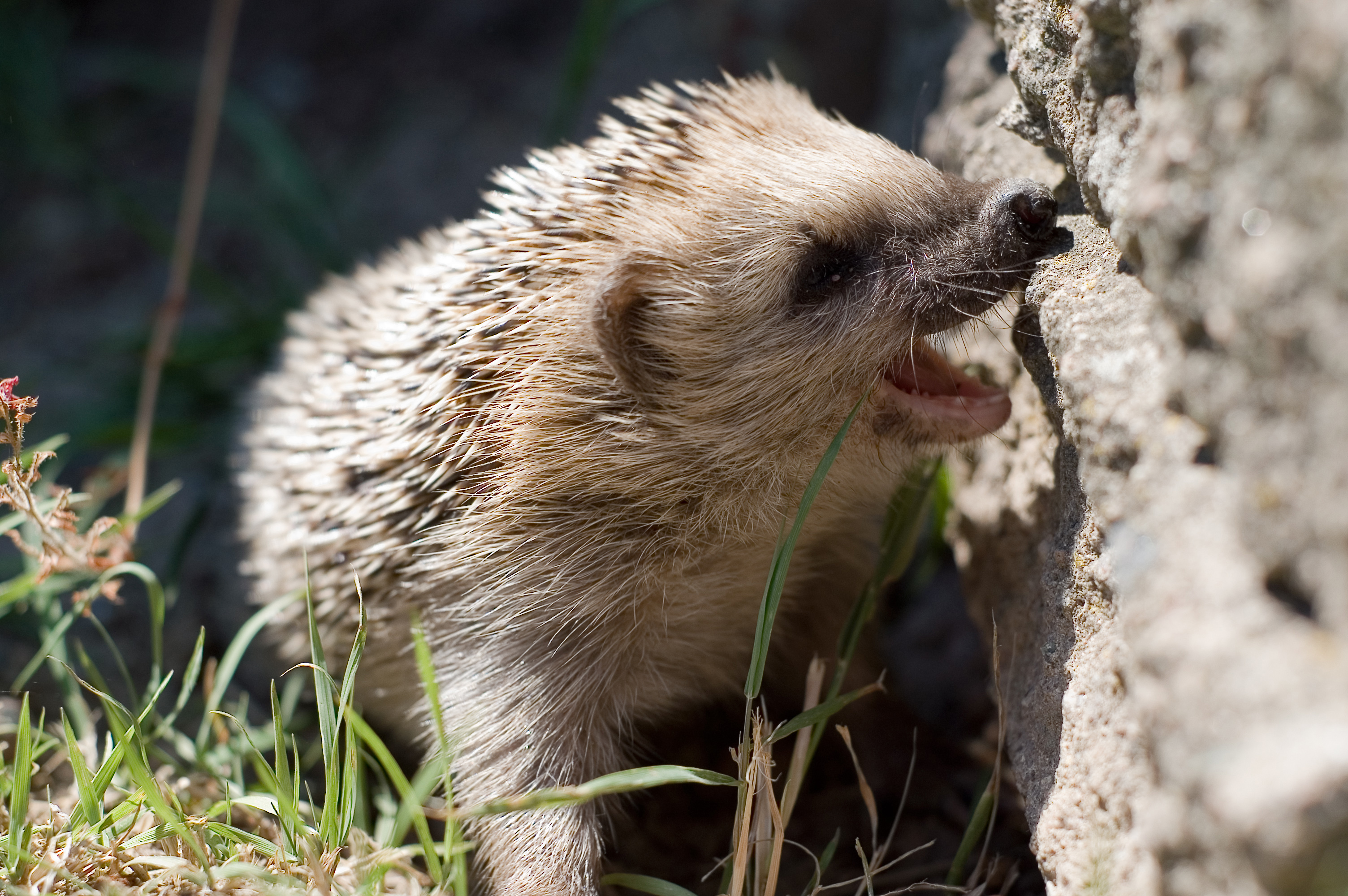 Young West European Hedgehog